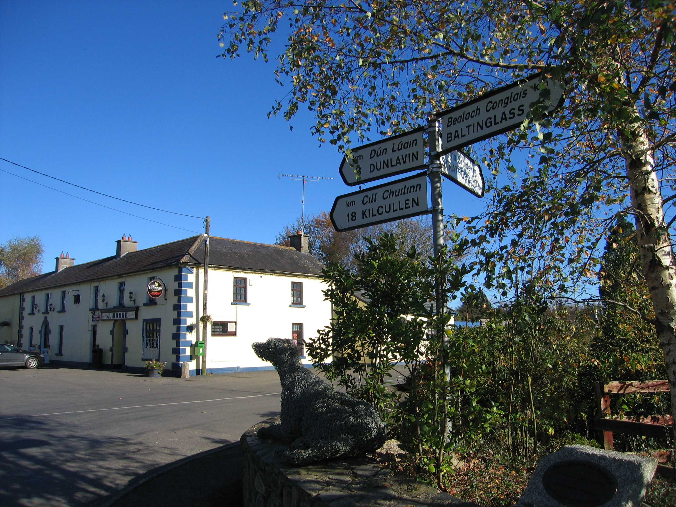 Grangecon, County Wicklow (Sarah777 03:19, 10 January 2007 (UTC))